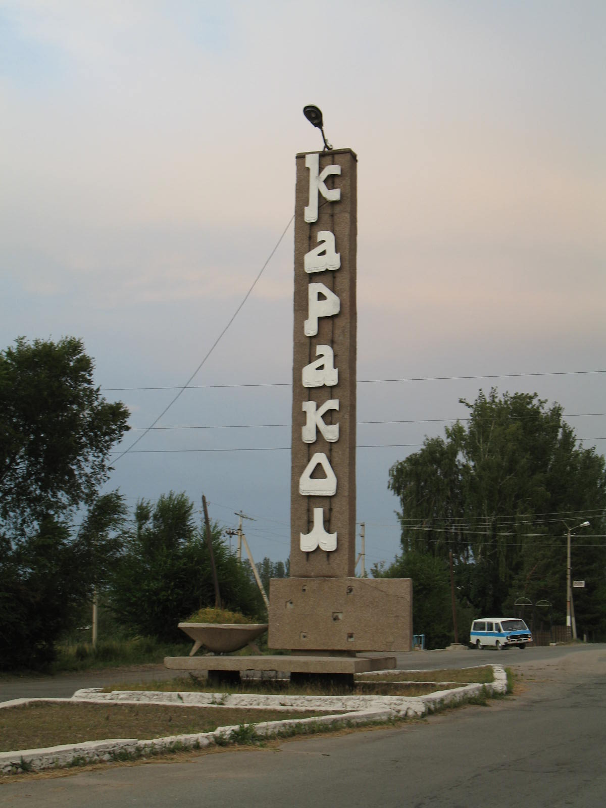 Sign at the western entrance to the city of Karakol, Kyrgyzstan Кыргызча: Каракол шаарынын батыш кире беришиндеги белги